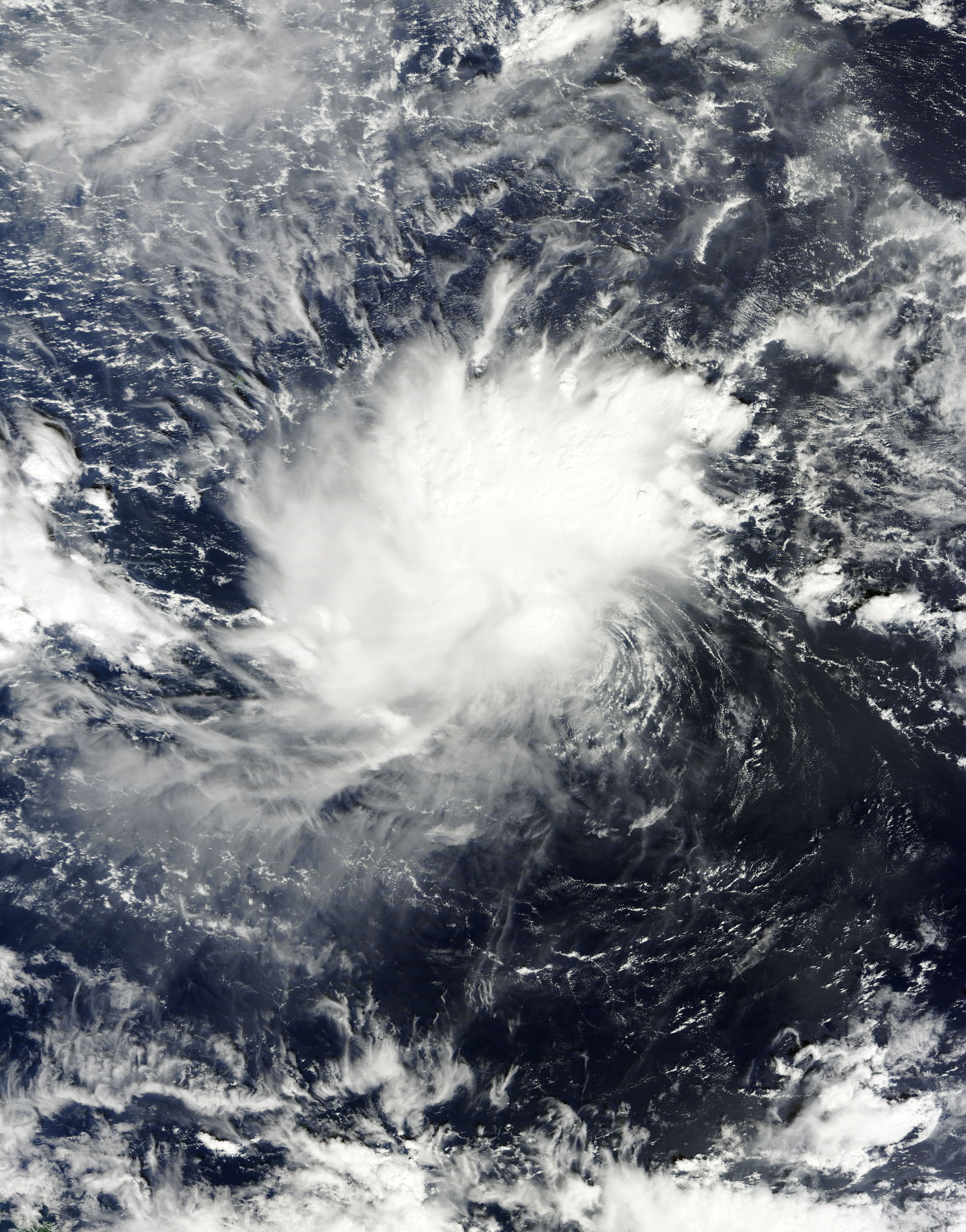 JMA Tropical Depression 48 southeast of Yap on December 21, 2016